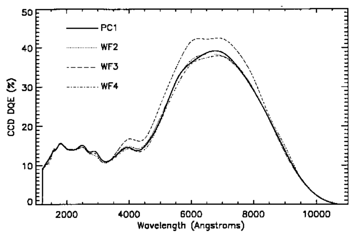 modification of PD NASA image to make a better thumbnail display.